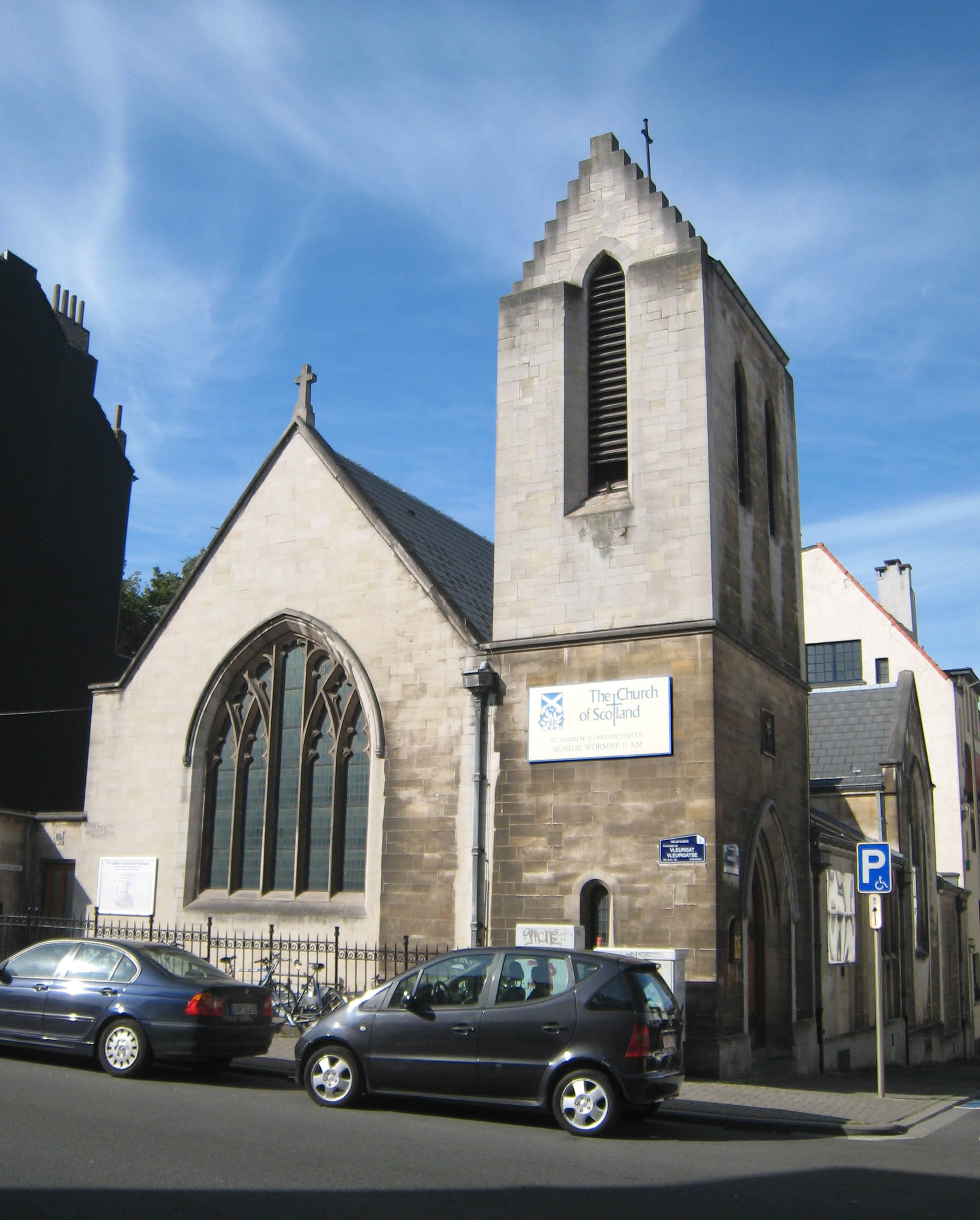 St Andrew’s Church, Chausée de Vleurgat, Brussels